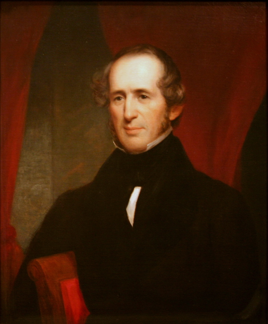 Oil on canvas portrait of Cornelius Vanderbilt; original size without frame 76.2×64.8 cm.